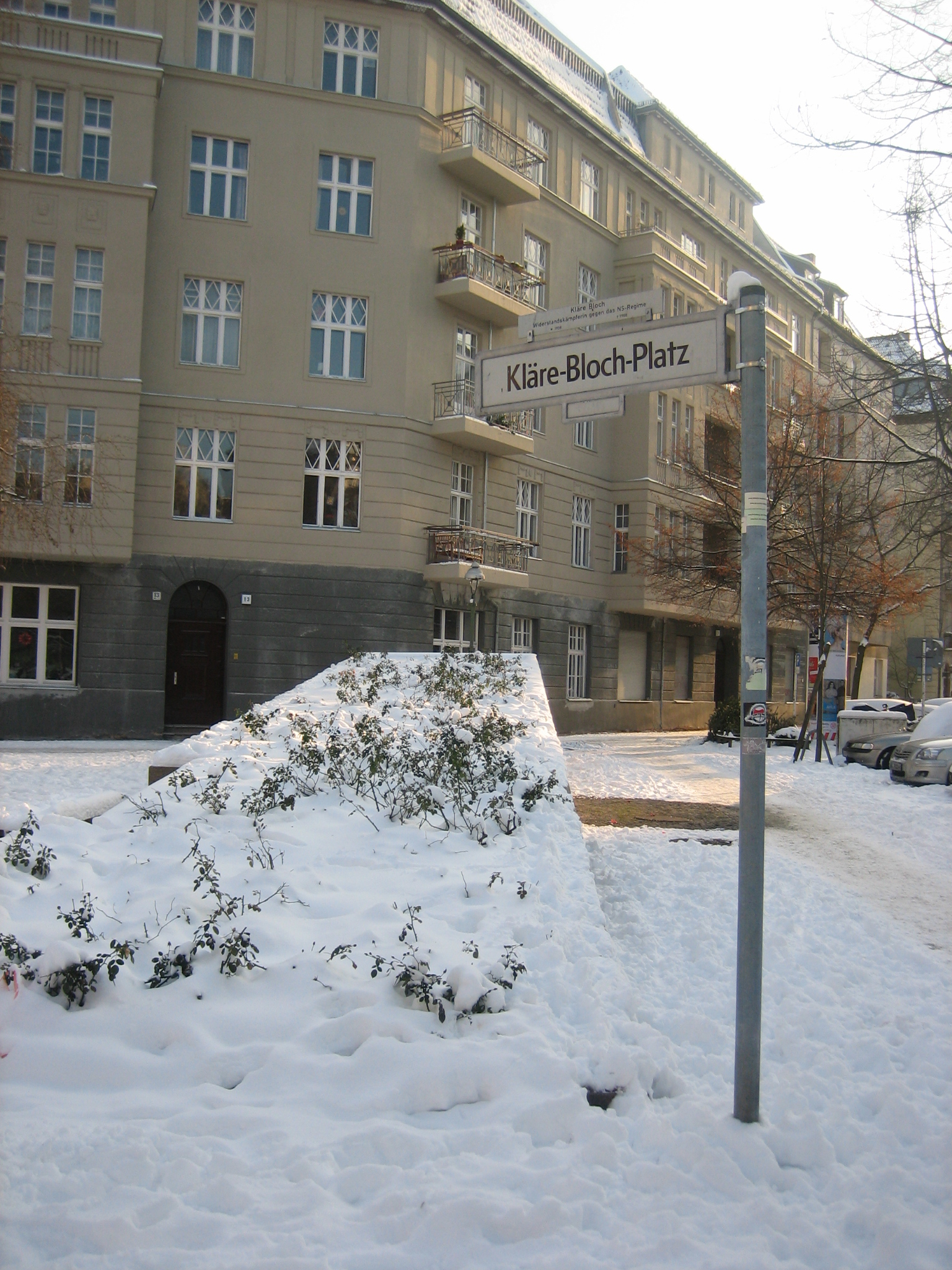 Kläre-Bloch-Platz in Berlin